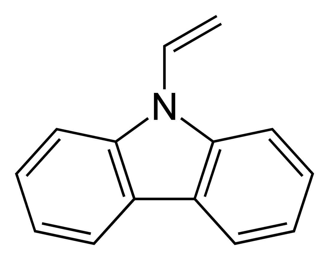 Skeletal formula of the N-vinylcarbazole molecule, C14H11N. Structure confirmed in CRC Handbook, 89th edition and Acta Cryst. (1976). B32, 3049-3053.